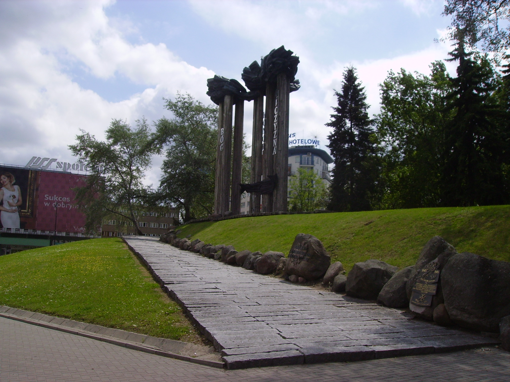 Monument to the Heroes of the Earth Białystok